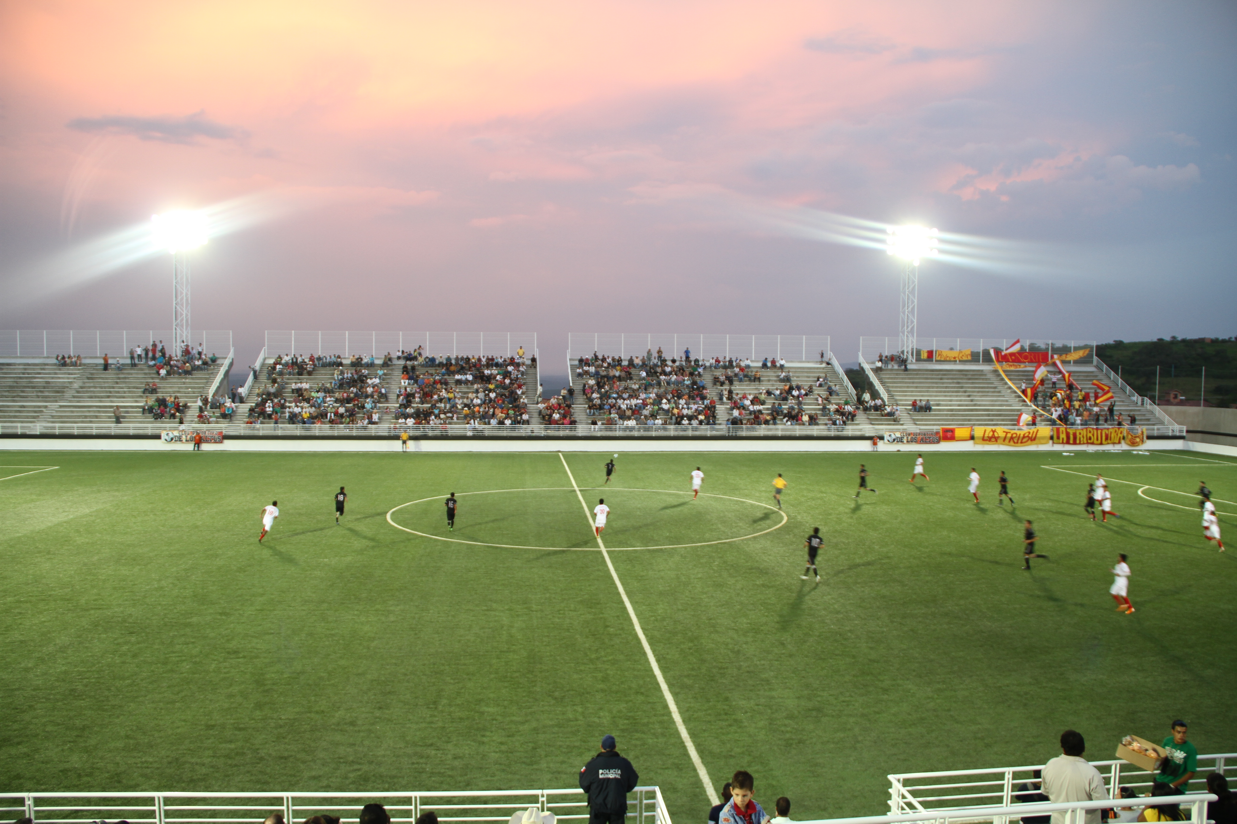 This picture was taked on the Game Clun Deportivo De Los Altos Vs Coras De Tepic